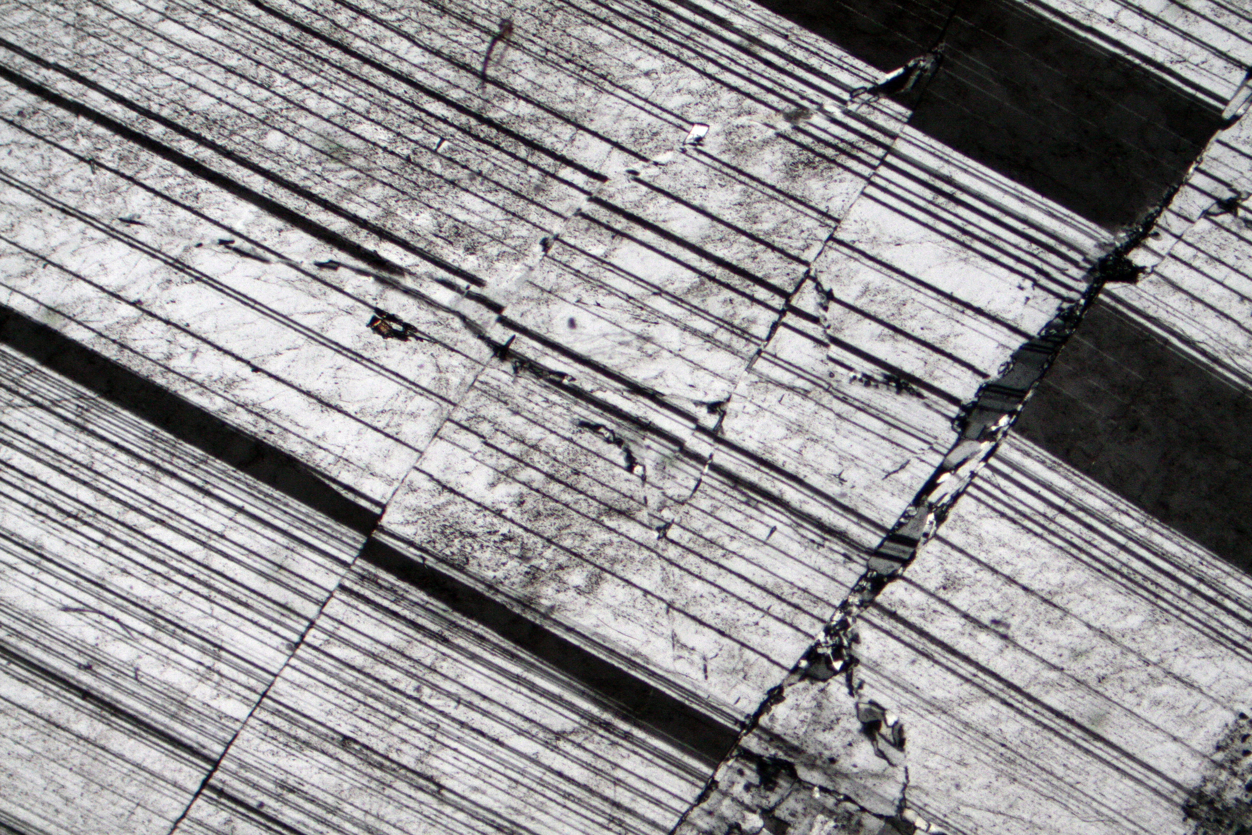 Faulted plagioclase crystal in a cataclastic gabbro from Campegli mine, Val Petronio, Liguria, Italy. Crossed nicols image, magnification 20x (Field of view = 1mm)